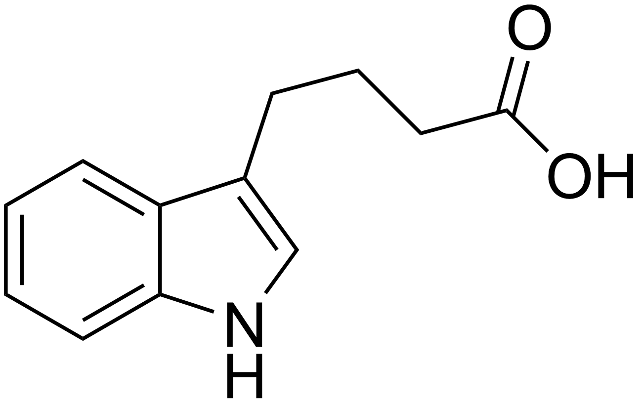 chemical structure of indolebutyric acid